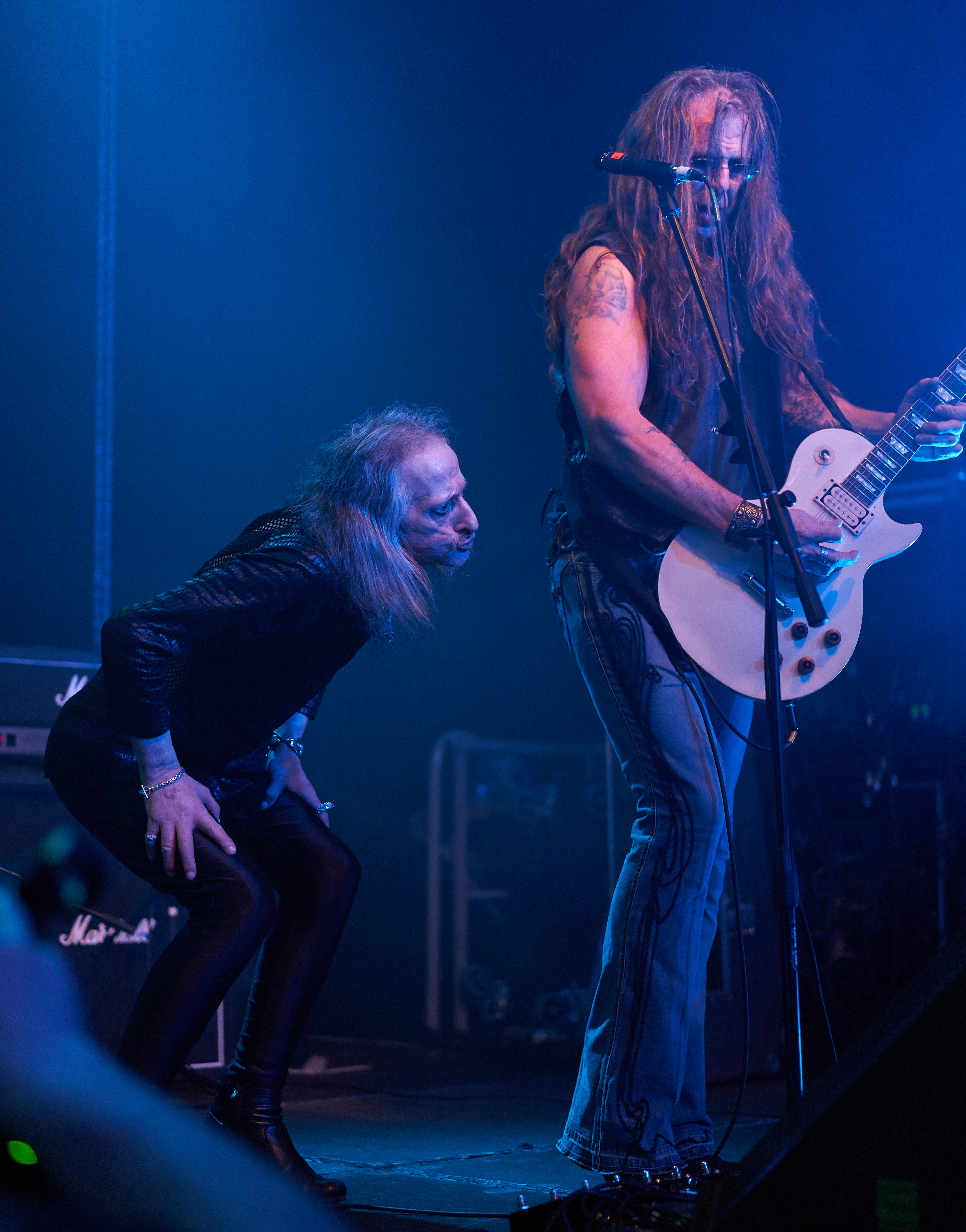 Pentagram at Hammer of Doom Festival, Würzburg, Posthalle, 20.11.2015 Festivalsommer This photo was created with the support of donations to Wikimedia Deutschland in the context of the CPB project "Festival Summer". Personality rights warning Although this work is freely licensed or in the public domain, the person(s) shown may have rights that legally restrict certain re-uses unless those depicted consent to such uses. In these cases, a model release or other evidence of consent could protect you from infringement claims.